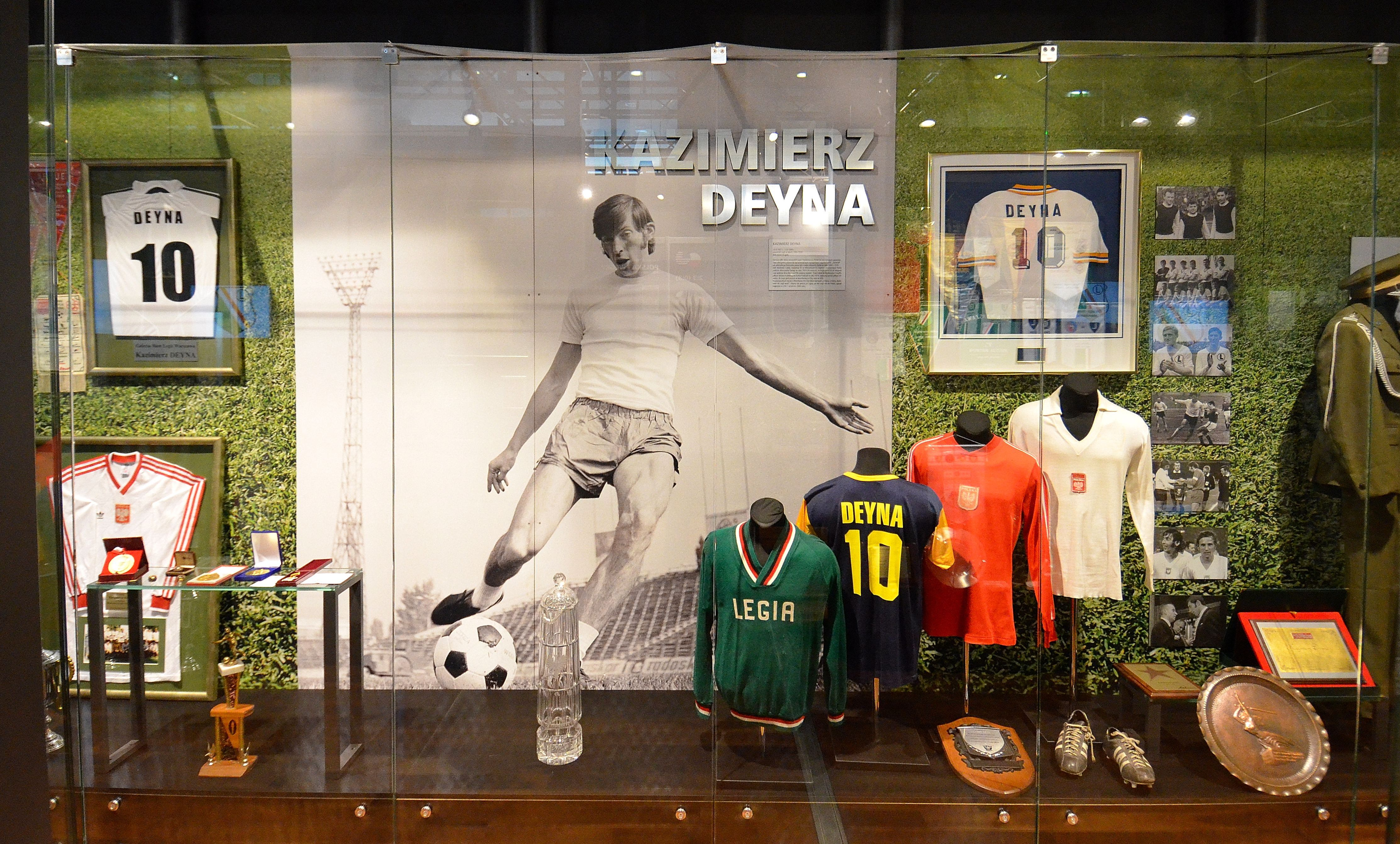 Legia Warszawa Museum